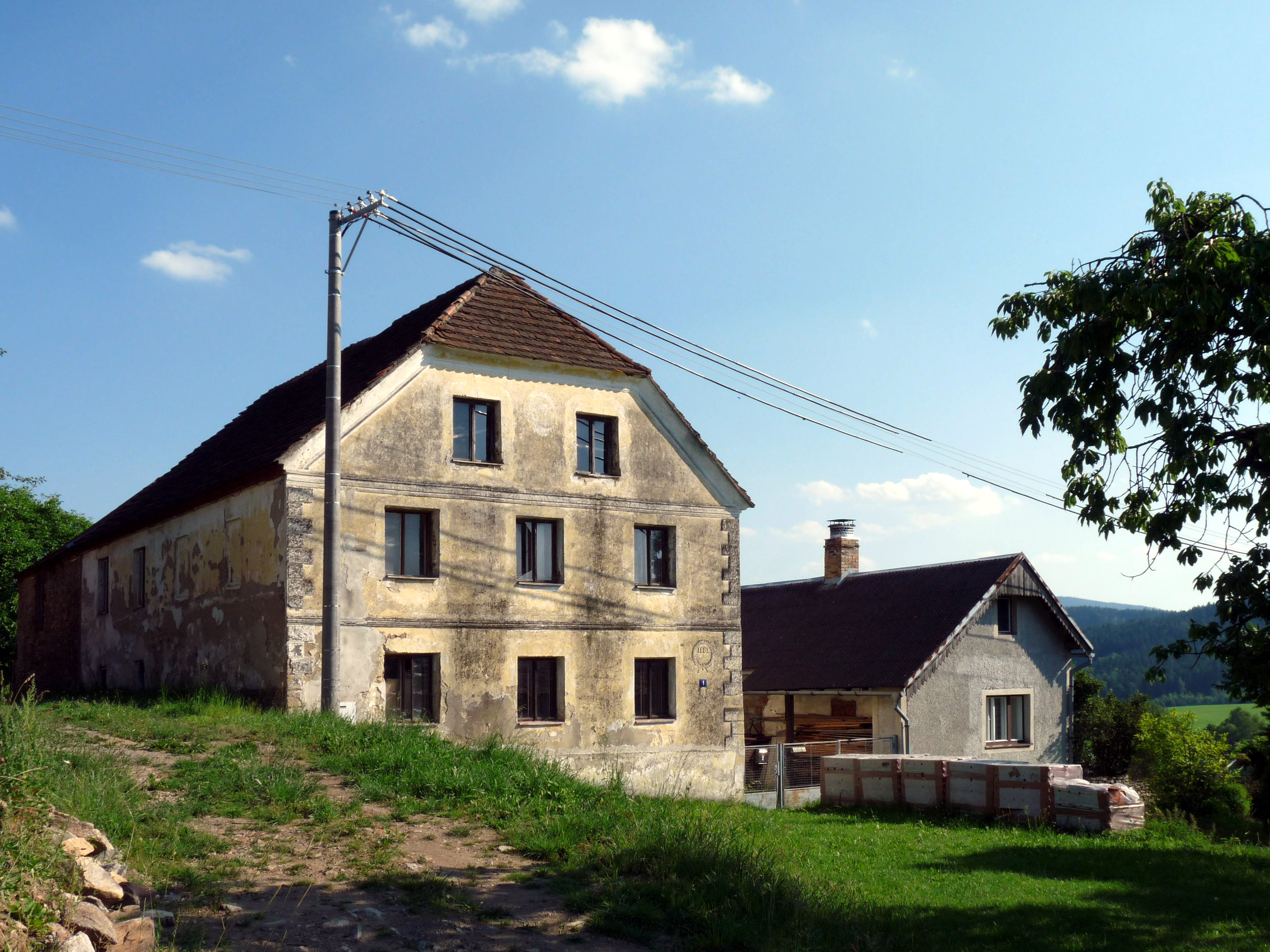 House No 2 in the village of Smědeč, Prachatice District, South Bohemian Region, Czech Republic.